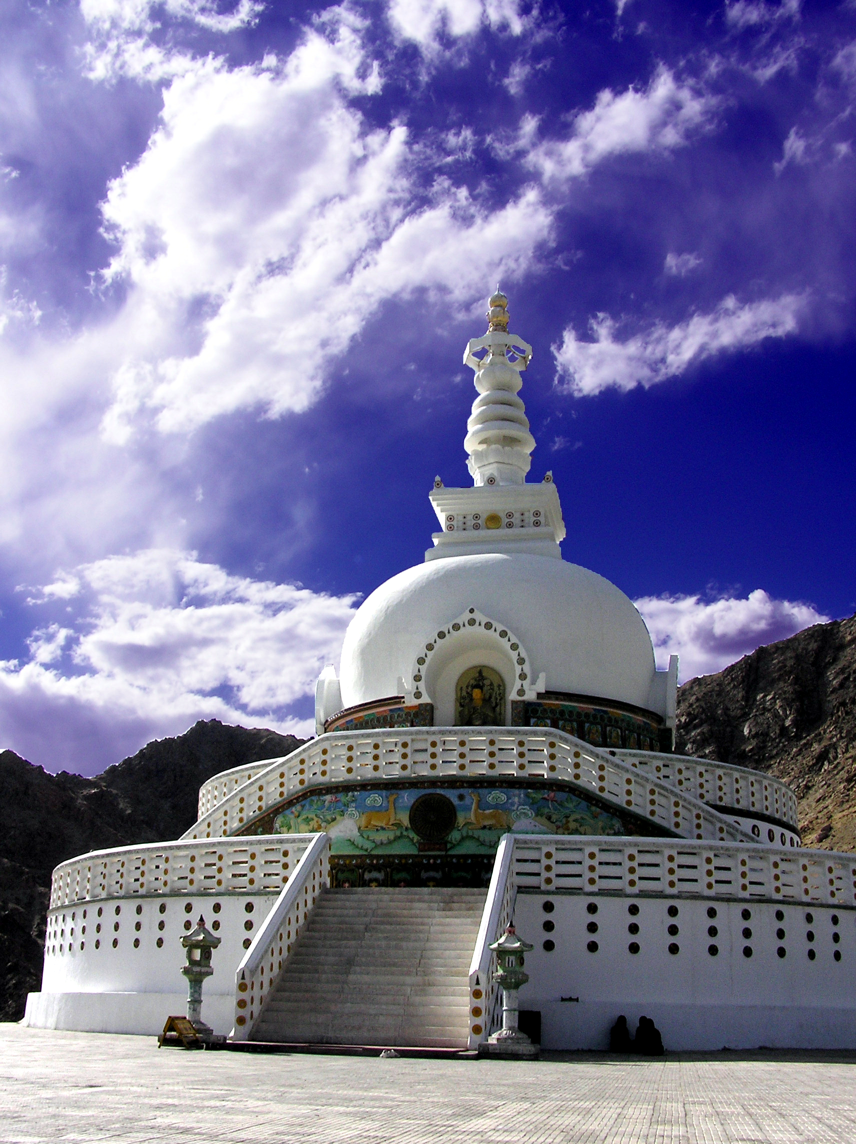 Shanti Stupa, Leh (Ladakh, India)